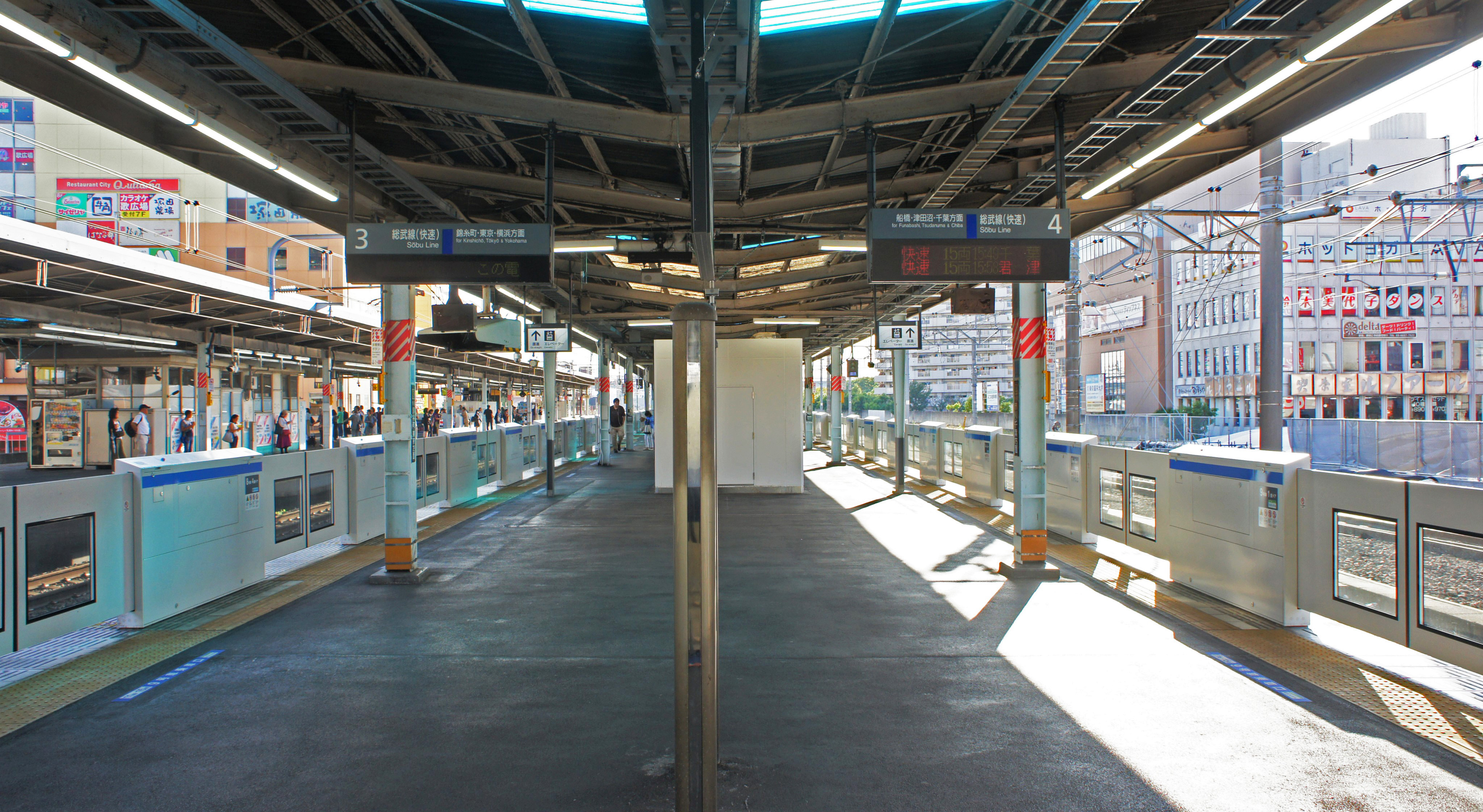 Platform 3・4 (Sobu Rapid Line) of JR Sobu-Main-Line Shin-Koiwa Station